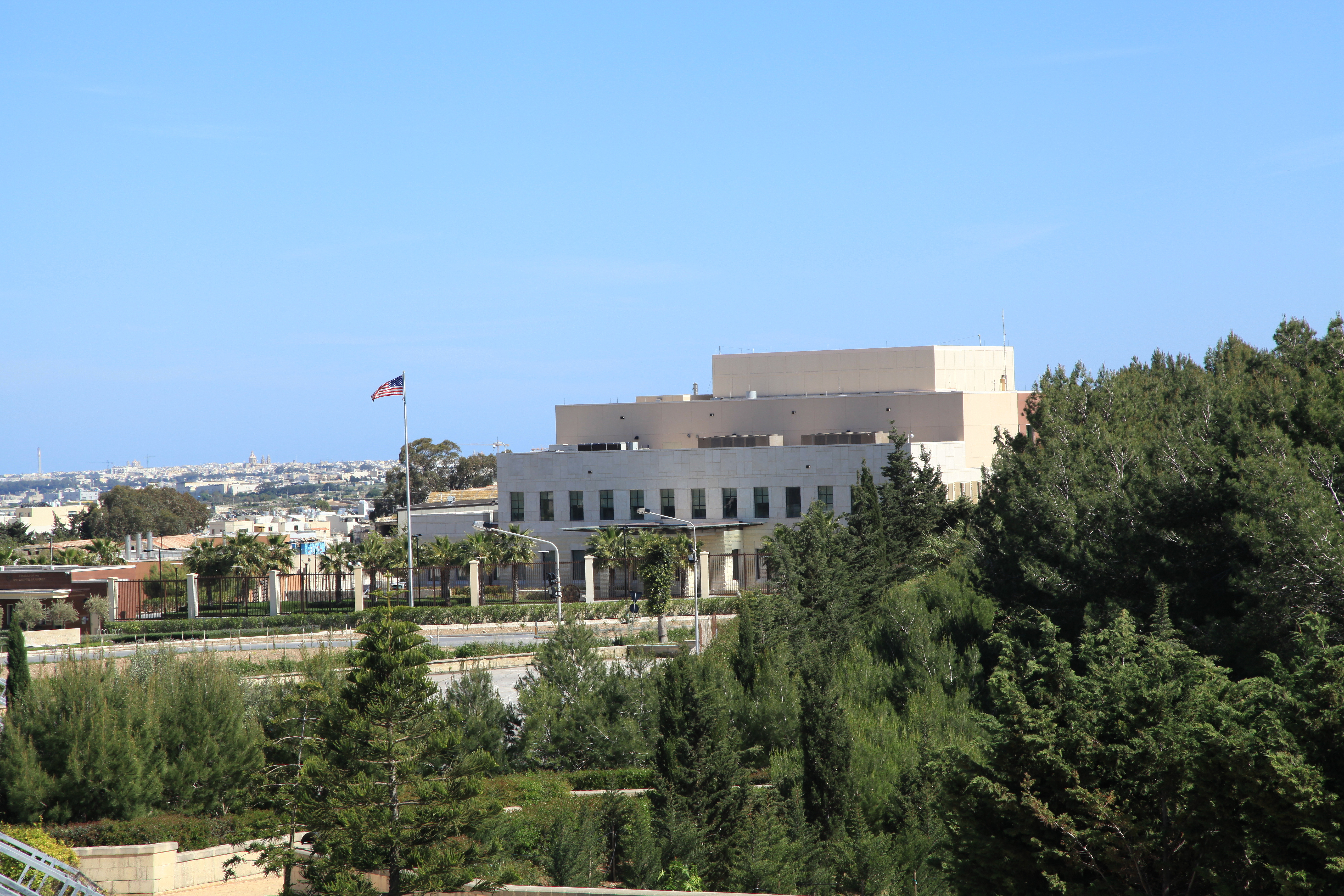 Embassy of the United States in the Ta' Qali area in Attard, Malta